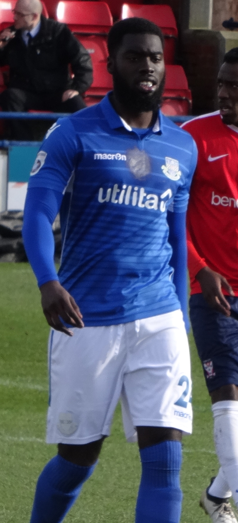 Ayo Obileye playing for Eastleigh against York City at Bootham Crescent, York on 4 March 2017